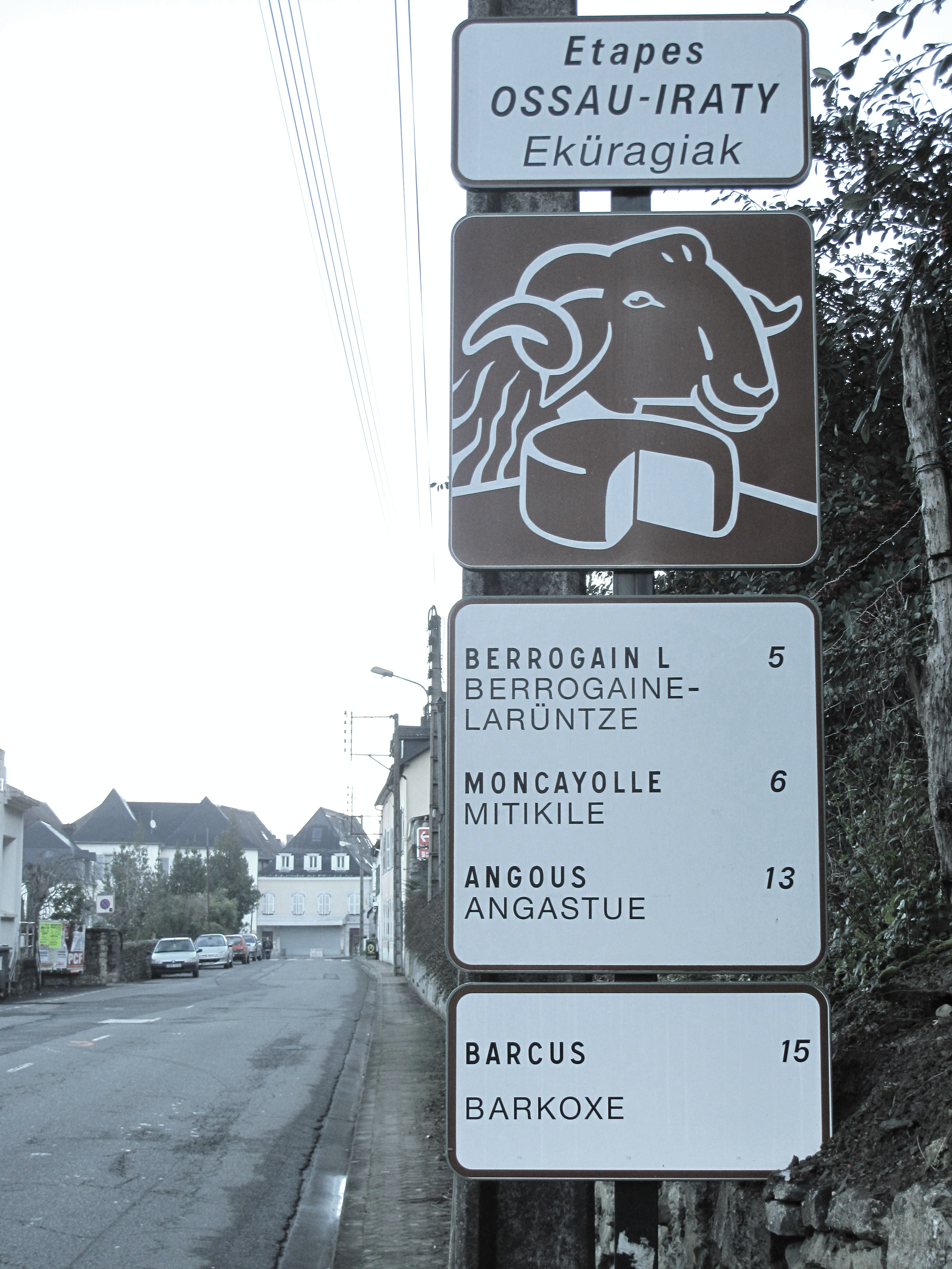 Information panel with touristic steps about the sheep-milk cheese "Ossau-Iraty". On the road of Libarrenx, when entering in Mauléon-Licharre, (Pyrénées-Atlantiques, France).